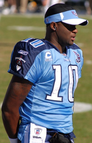 Tennessee Titans quarterback Vince Young on the sidelines during the November 2, 2008 game against the Green Bay Packers at LP Field.